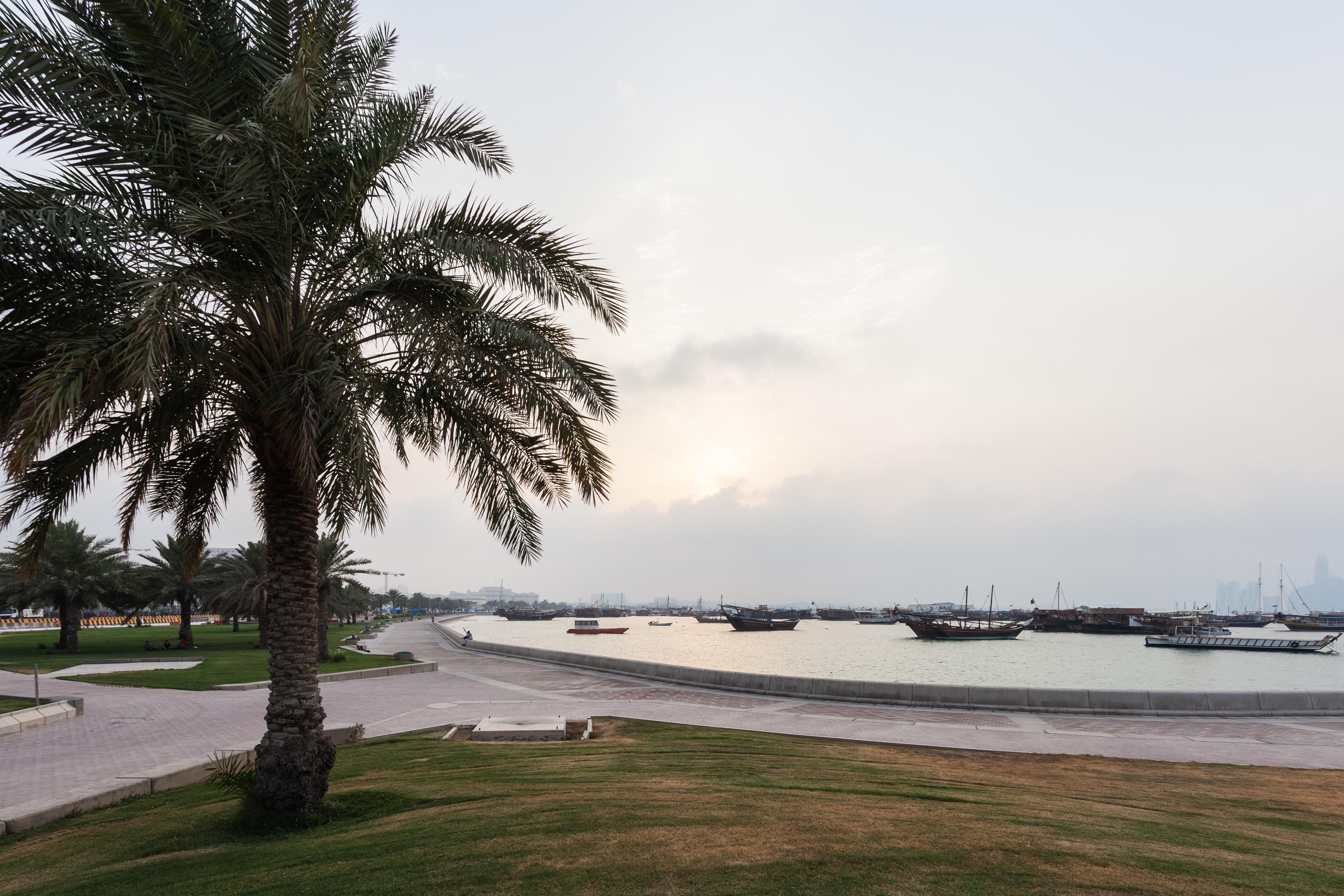 Doha Bay, Qatar